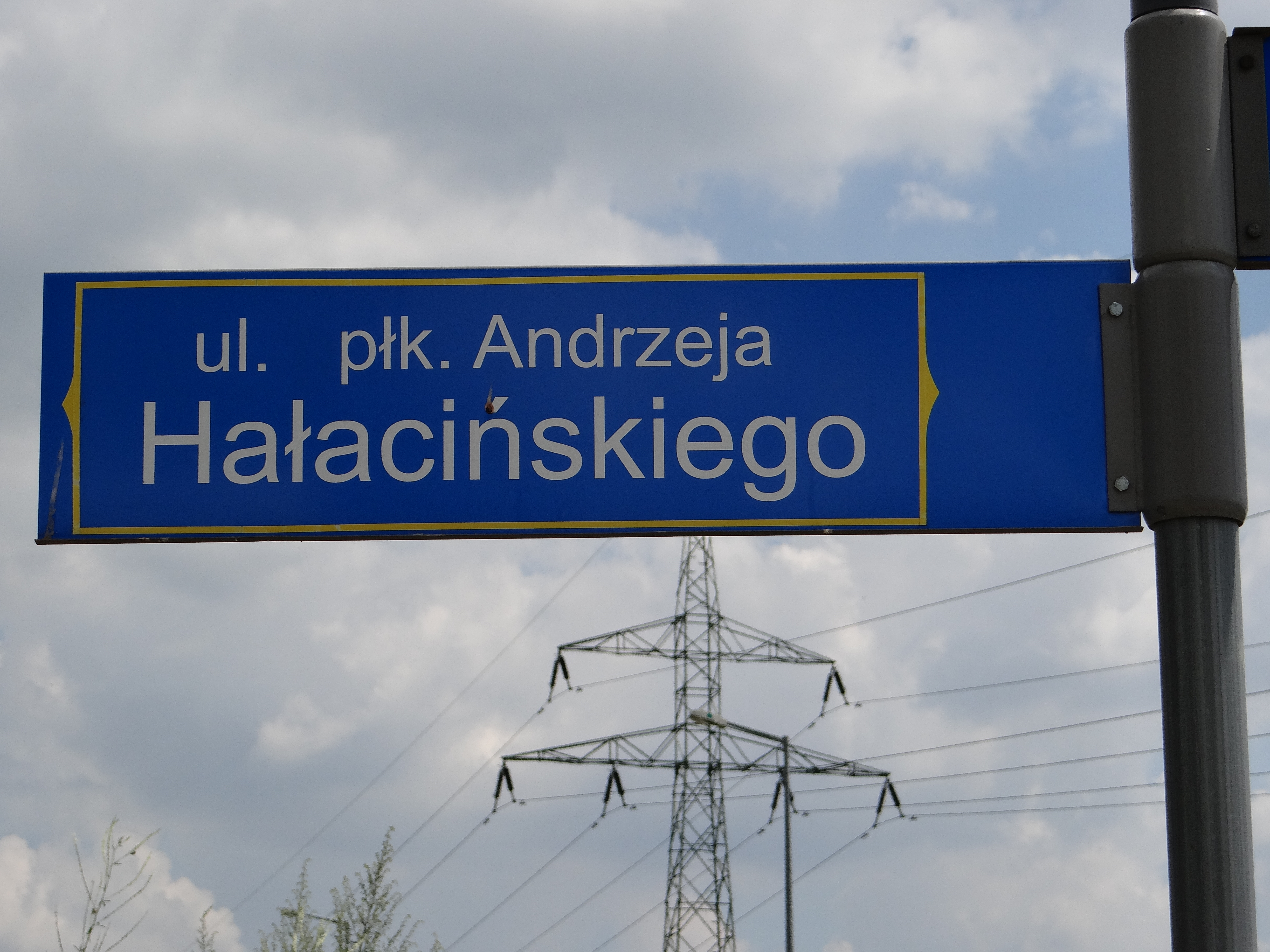 Skawina ul. Andrzeja Hałacińskiego